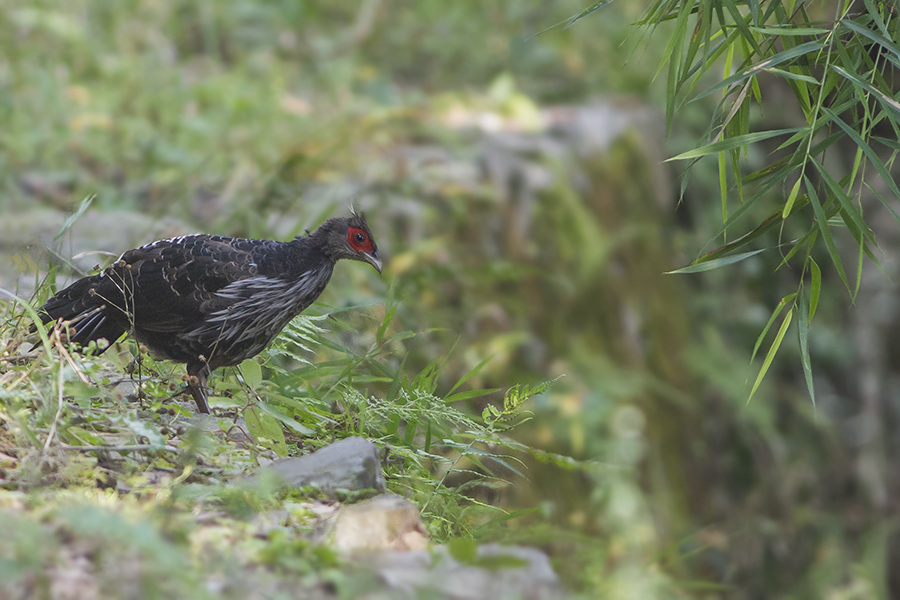 The specie Kalij Pheasant had been photographed at Pangot, Uttarakhand, India during the bird photography trip of GoingWild 04.10.2014.